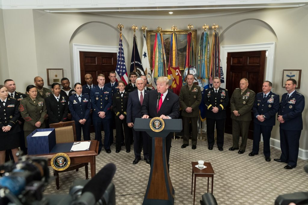 President of the United States, Donald Trump, delivers remarks prior to signing the National Defense Authorization Act for the Fiscal Year of 2018